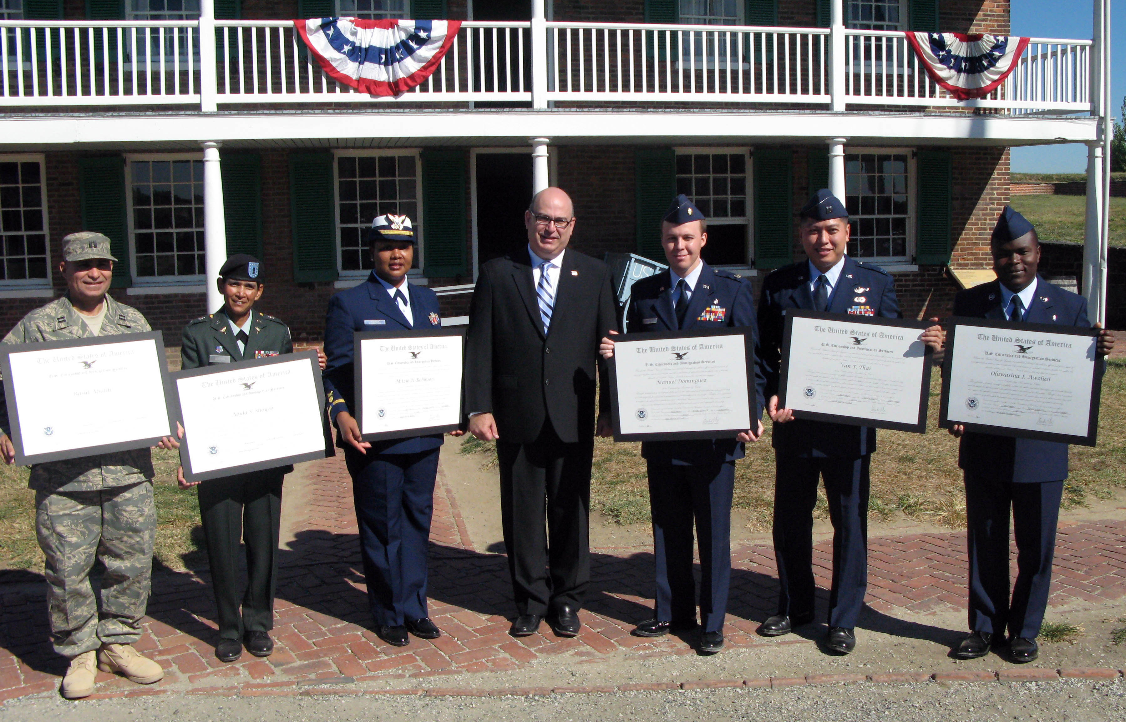 The recipients of the of U.S. Citizenship and Immigration Services’ Outstanding American by Choice award stand with the office’s director, Emilio T. Gonzalez, center. From left to right Air Force Capt. Rasul Alsalih, Army Warrant Officer Abida Sultana Shoyeb, Coast Guard Chief Warrant Officer 3 Mitzie A. Robinson, Gonzalez, Air Force Maj. Manuel Dominguez, Air Force Capt. Van T. Thai and Air Force Tech. Sgt. Oluwasina Awolusi. Defense Dept. photo by Fred W. Baker III